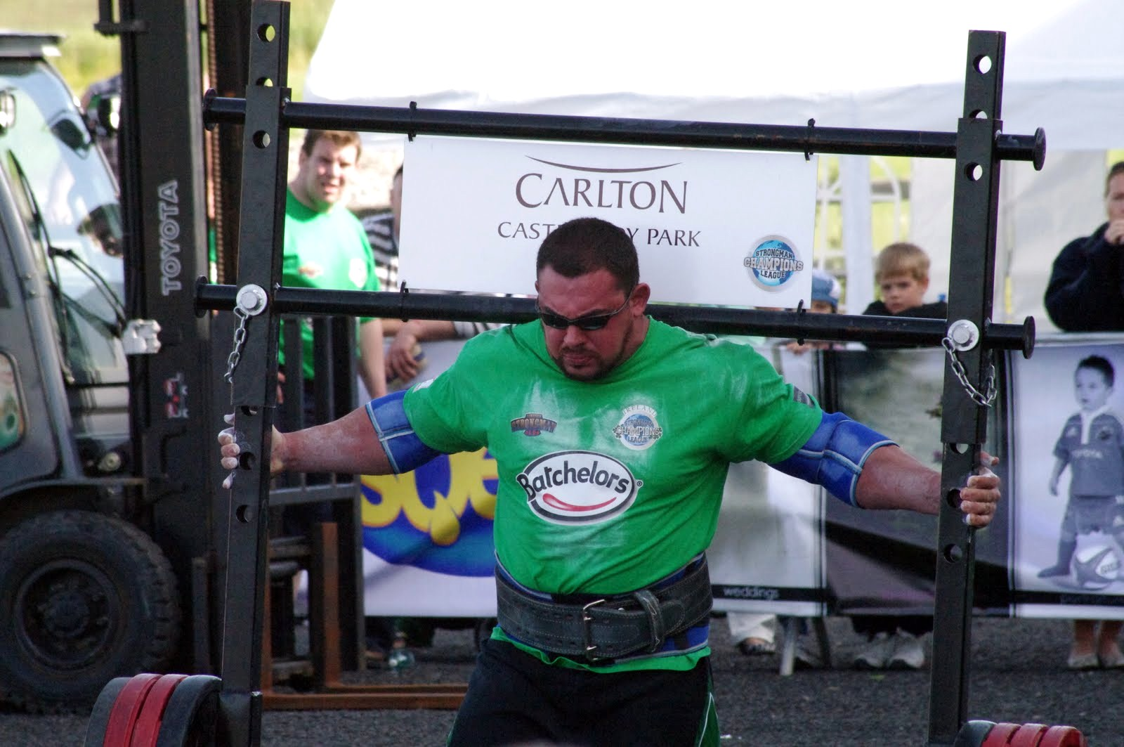 Kevin Nee at the Yoke Walk.